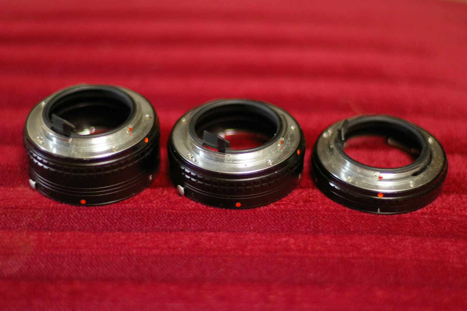 Photo of Extention tube.